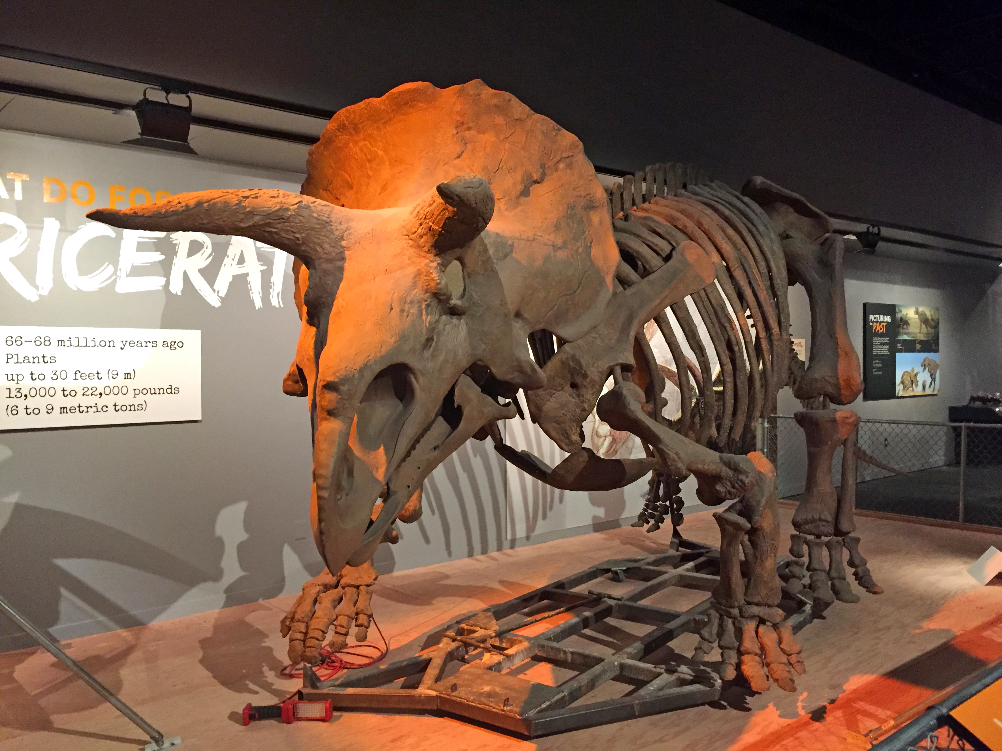 This was taken at the Smithsonian Museum of Natural History in Washington, DC.